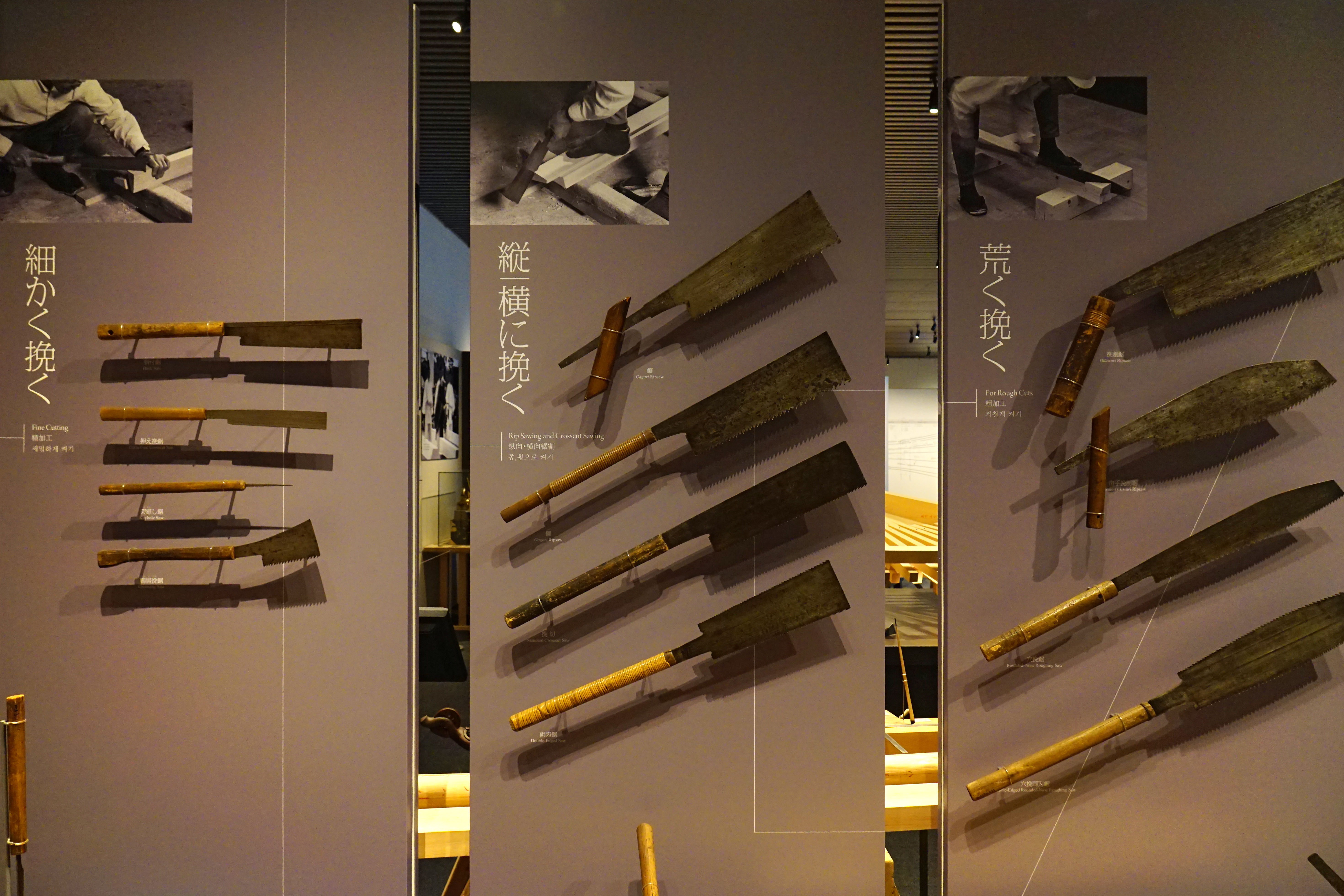 Takenaka Carpentry Tools Museum in Kobe, Hyogo prefecture, Japan.